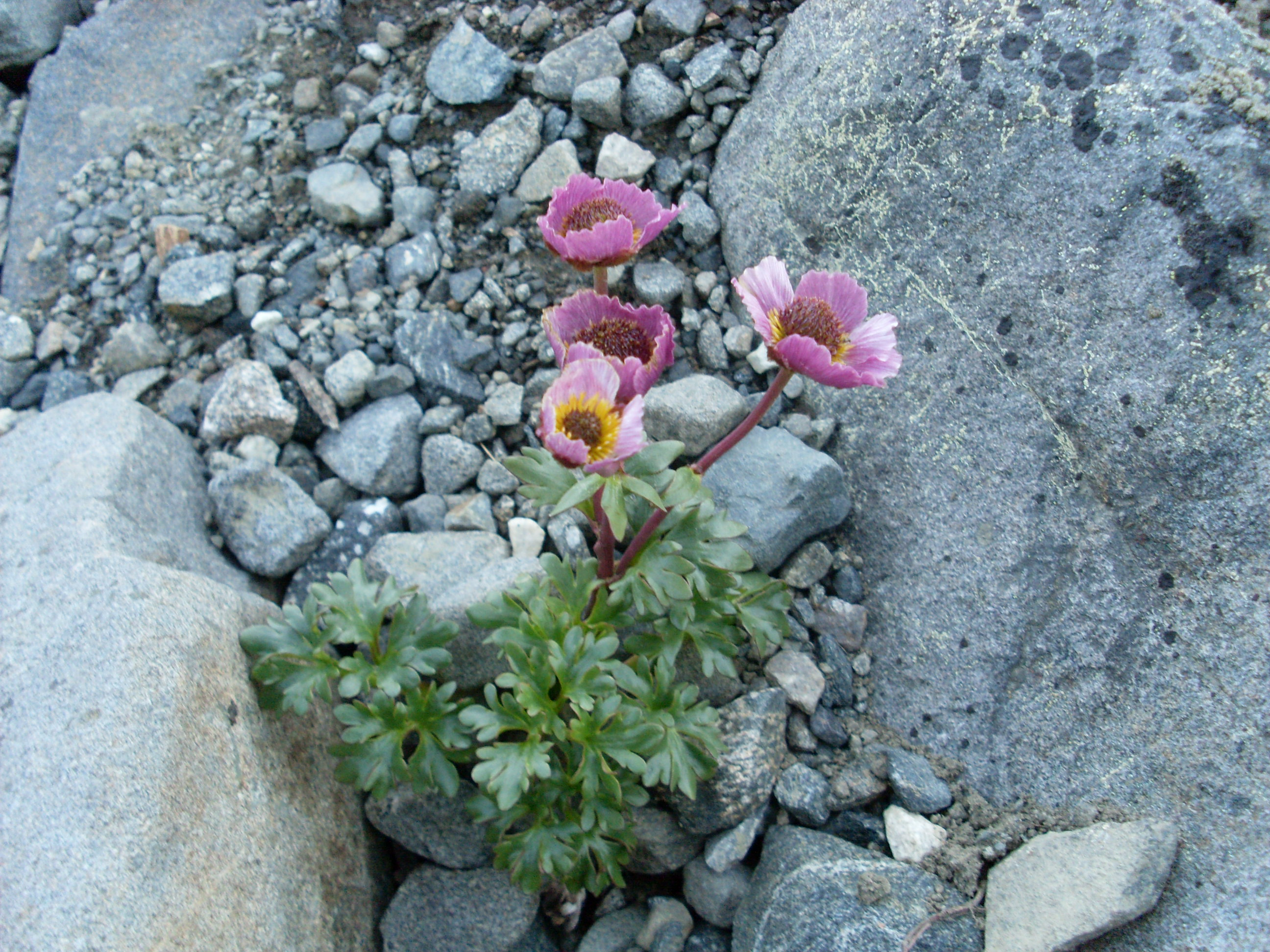 Ranunculus glacialis - photo is taken at the base of Mount Kebnekaise